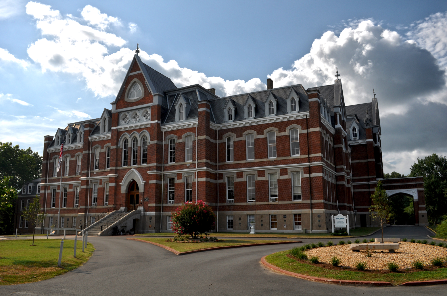 "Old Main" at Miller School of Albemarle, Charlottesville, Virginia